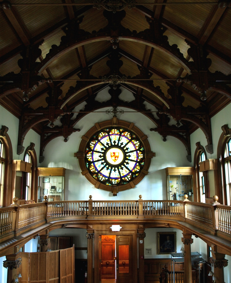 Interior shot of a structure on the campus of St. Lawrence University